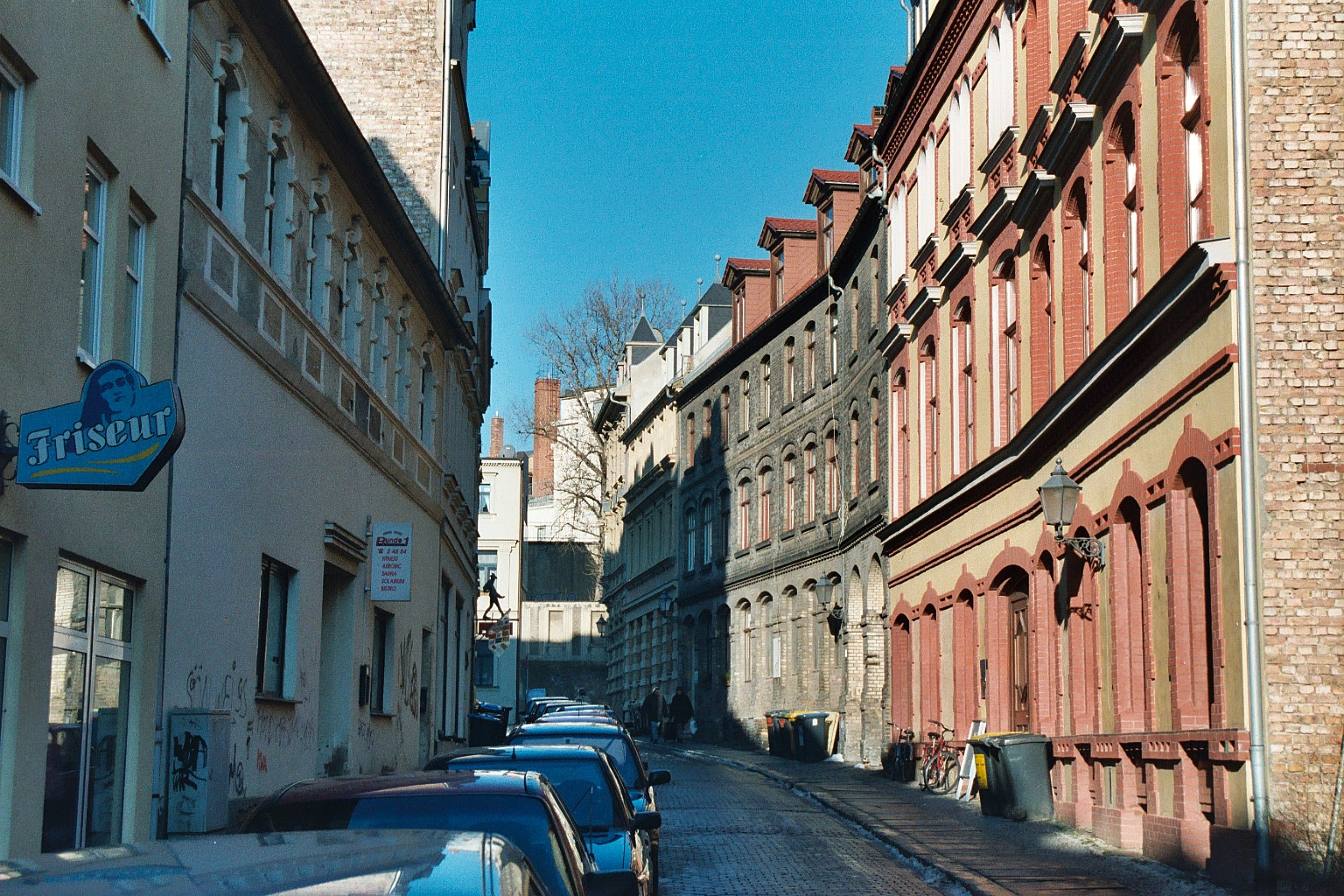 Halle (Saale), the eastside of the Mittelstraße